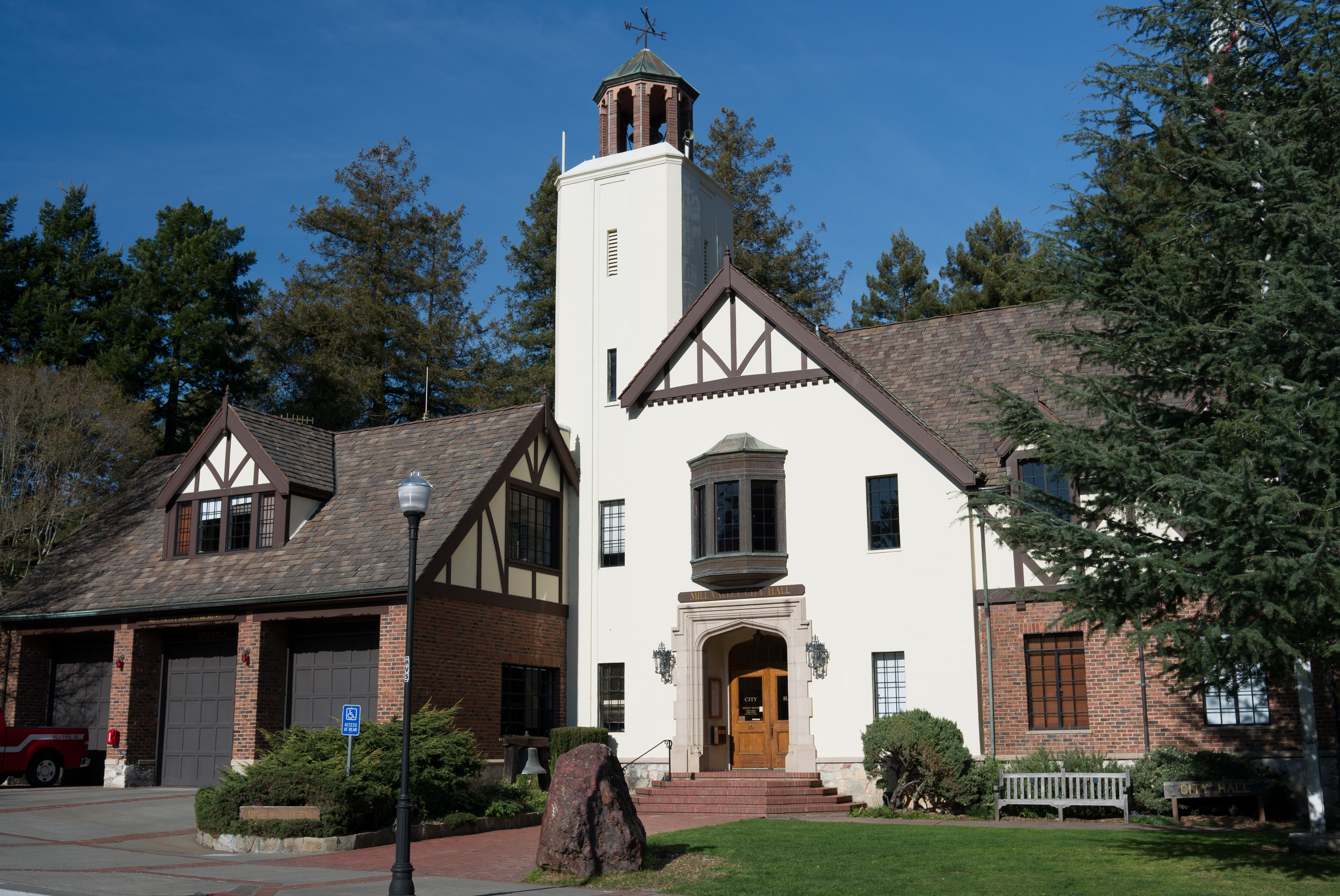 Mill Valley City Hall (as seen in March 2012).